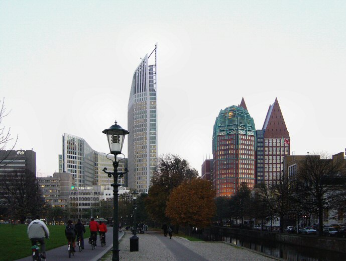 Photo made by Markv (November 2004) and originaly uploaded to the Dutch Wikipedia (3 Dec 2004)